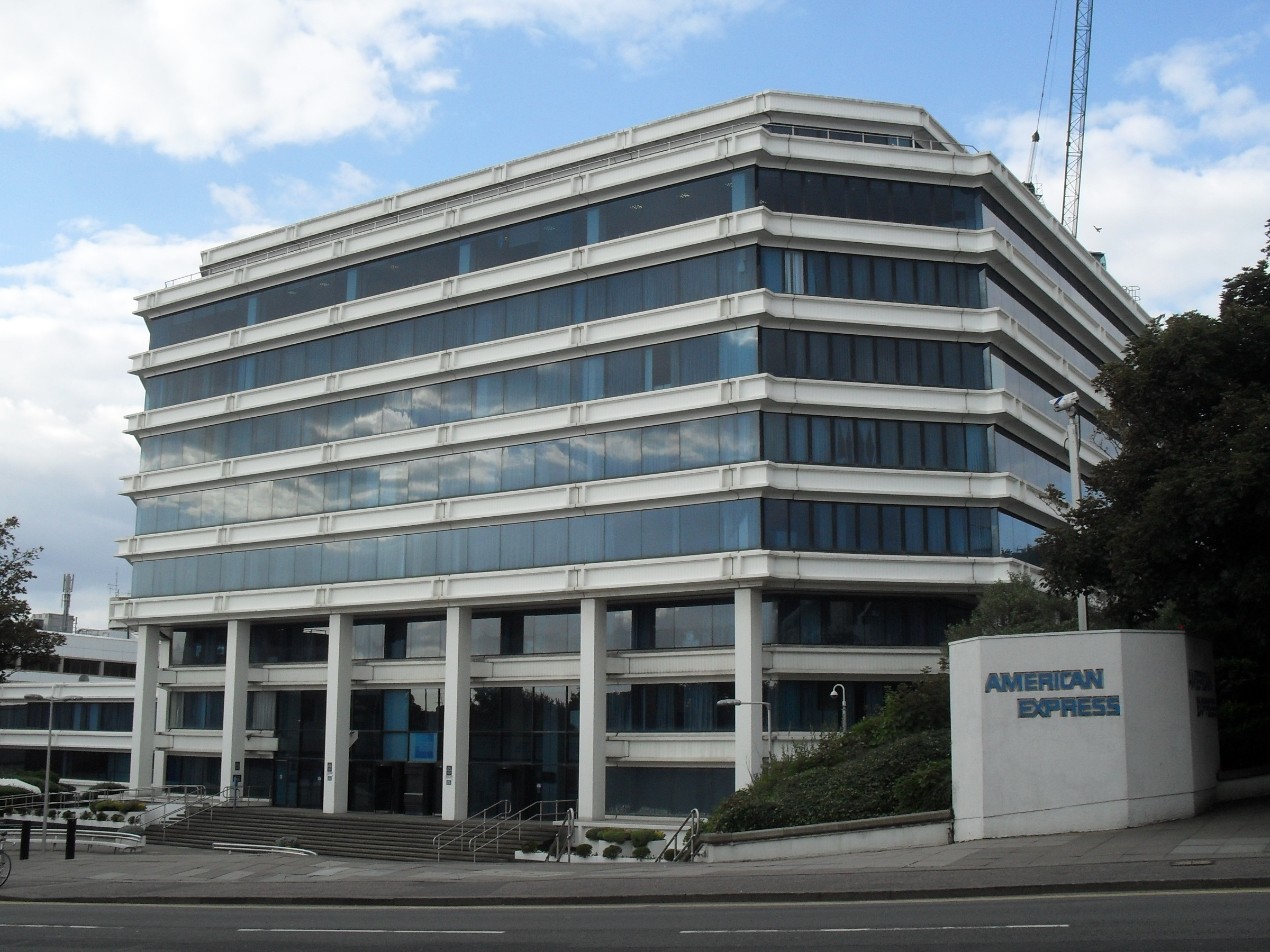 Amex House, Edward Street, Carlton Hill, City of Brighton and Hove, East Sussex, England. The European headquarters of American Express, built in 1977. The building is set to be demolished and replaced with a new office on the same site.